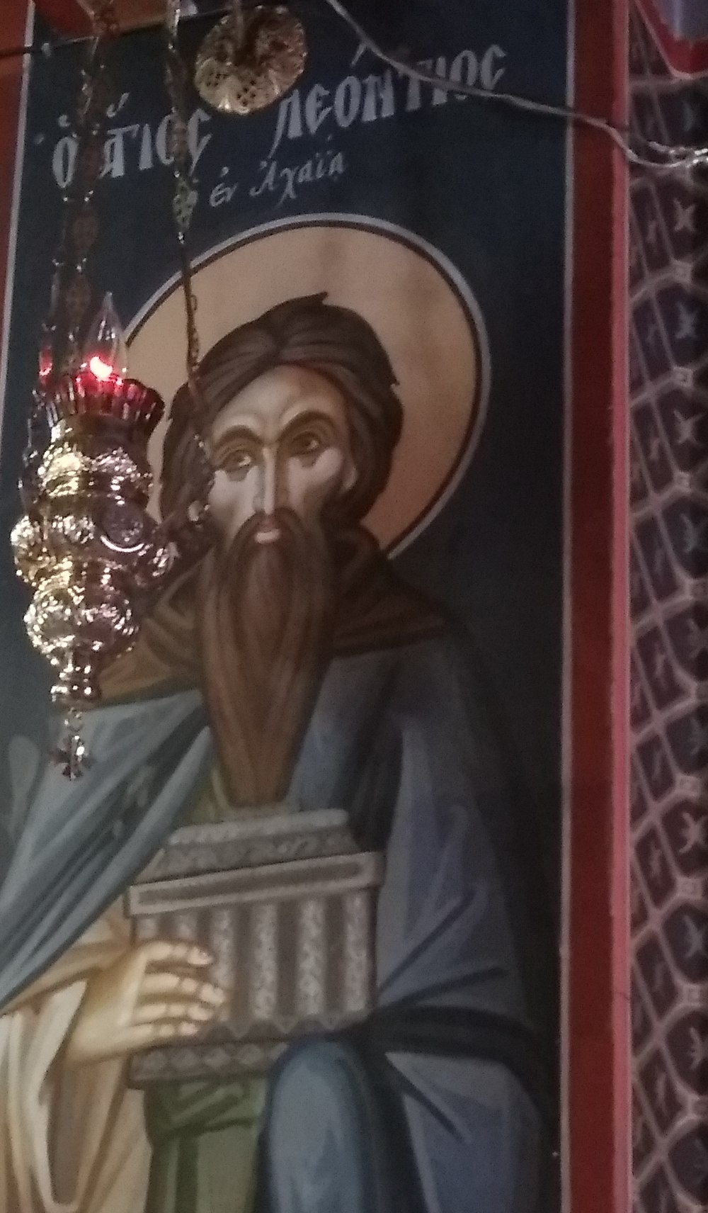 Saint Leontius of Monemvasia, founder and abbot of the monastery of Pammegiston Taxiarchon located in Aigialeia, Greece